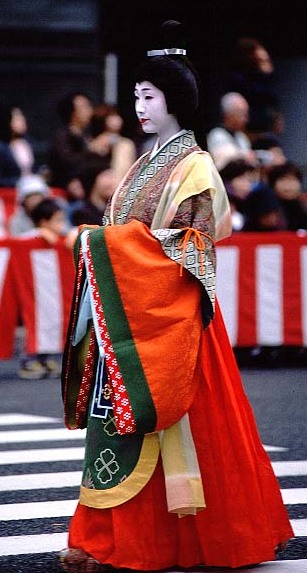 Kimono of Nara period of Japan